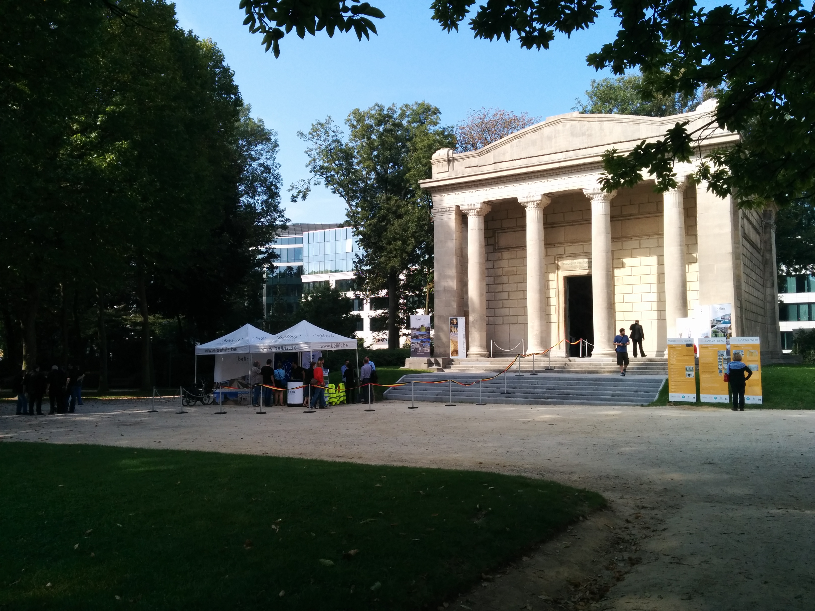 A pavillon by Victor Horta in the parc Cinquantenaire